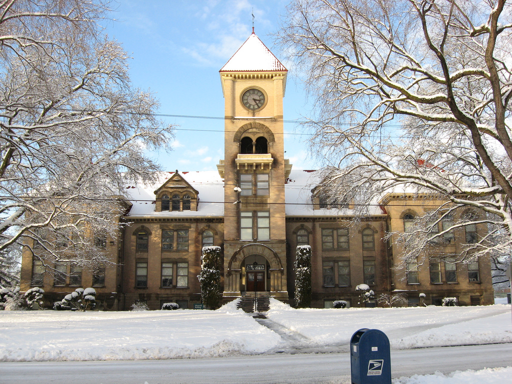 The Memorial Building is the oldest building on the campus of Whitman College, Walla Walla, Washington State, USA. It serves as an administrative center on the College. Photo by Flickr user Poecilia, Source:Memorial building! Date:28 January 2008